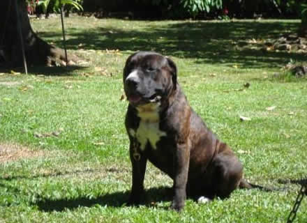 American Staffordshire Terrier